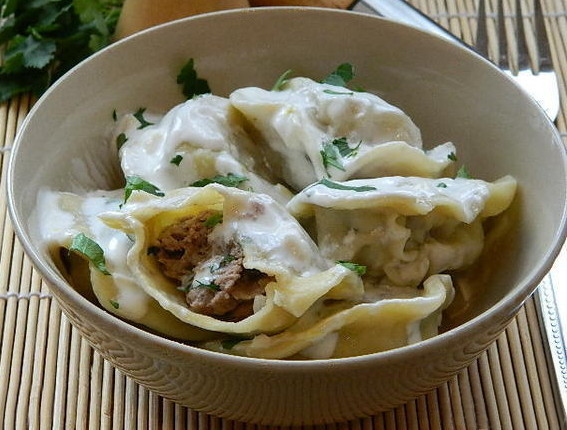 Mantapour. Armenian manti with matzoon. Often served with broth.